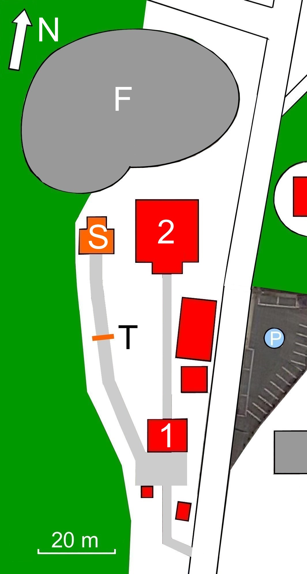 Layout of Shokoku-ji, Takasaki, Japan